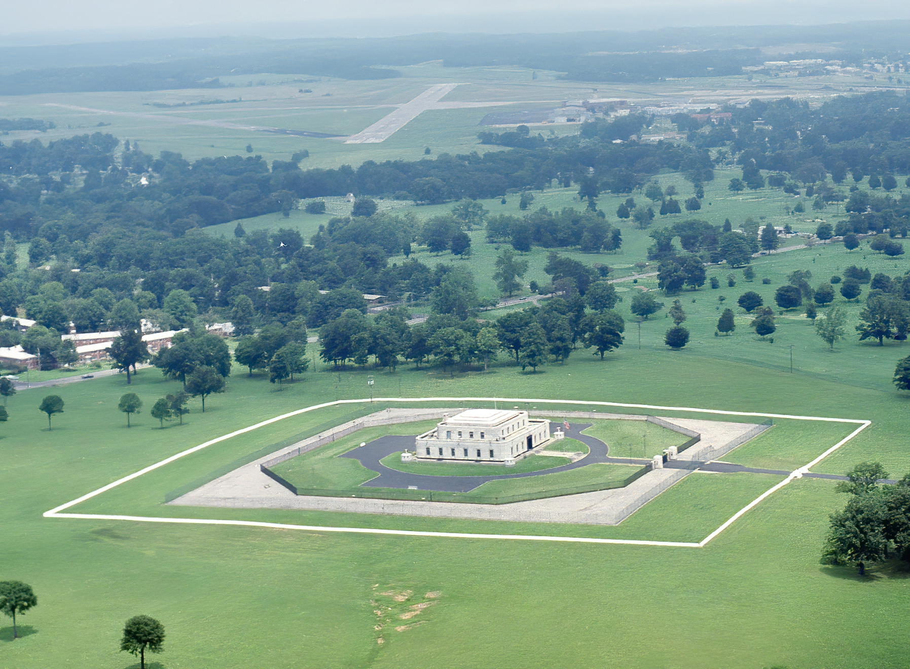 An UH-1 Iroquois helicopter flies over the US Gold Bullion Depositiory.